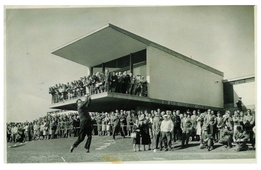 Minister Aba Even in the openning of Caesarea's golf course